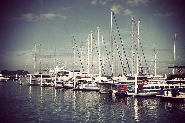 Boats and ferries docks in a Kota Kinabalu marina.